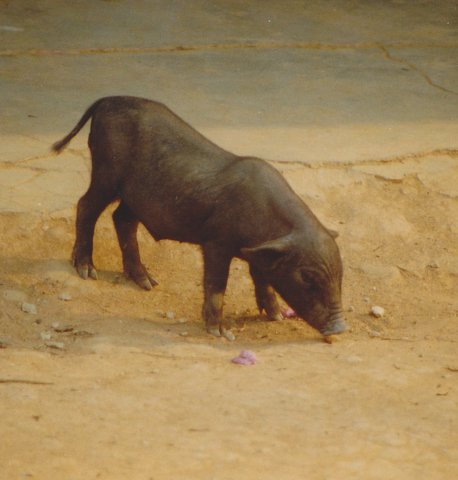 Young boar in Thailand